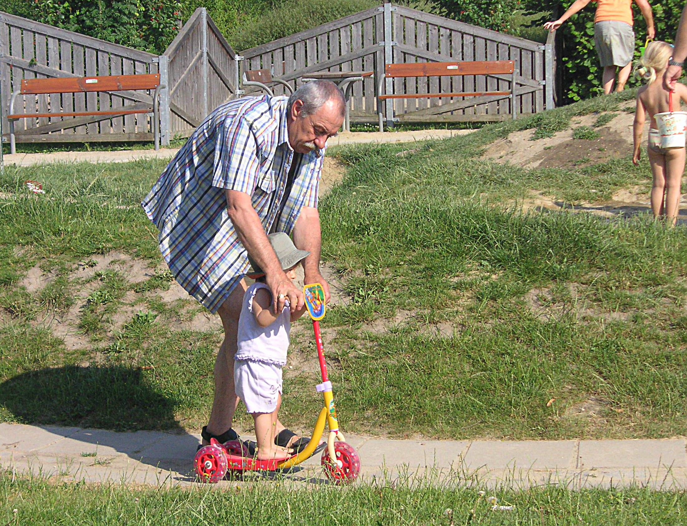 A grandfather teaching his little granddaughter how to ride a kick scooter. Simmering, Vienna, Austria, June 2006. Photo by KF.